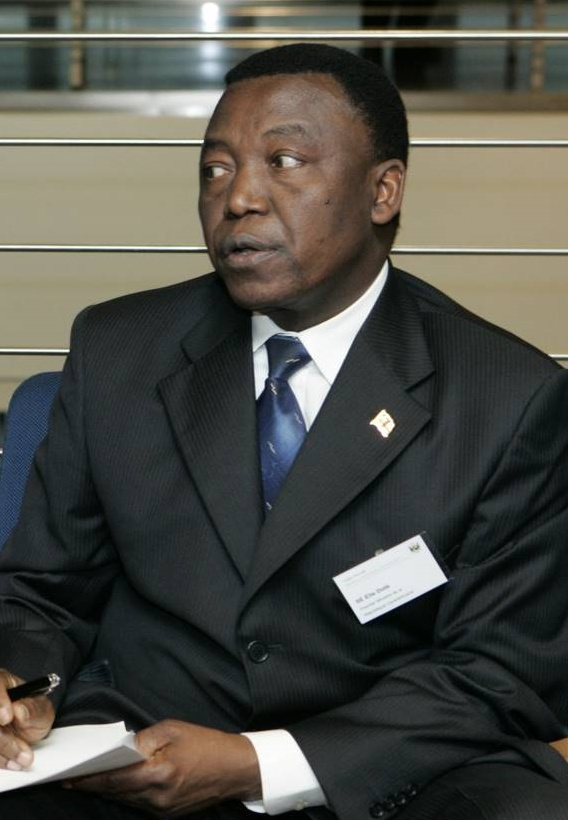 Elie Doté, Prime Minister of the Central African Republic